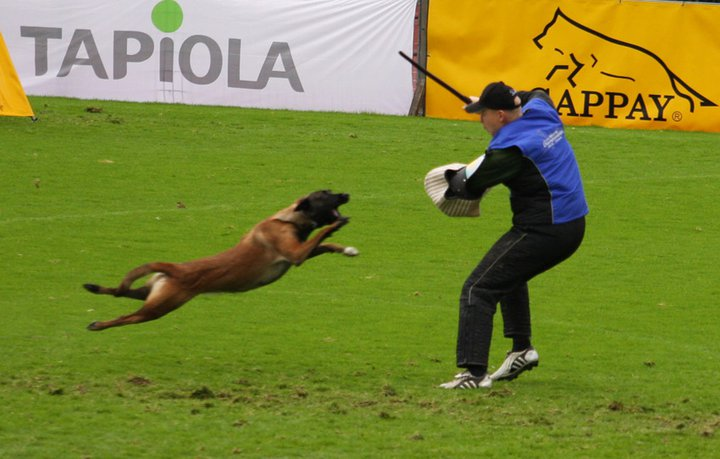 Protection Phase: Eclipse van de Duvetorre in Long Attack 中文（香港）: 護衛環節：日蝕在長距離攻擊